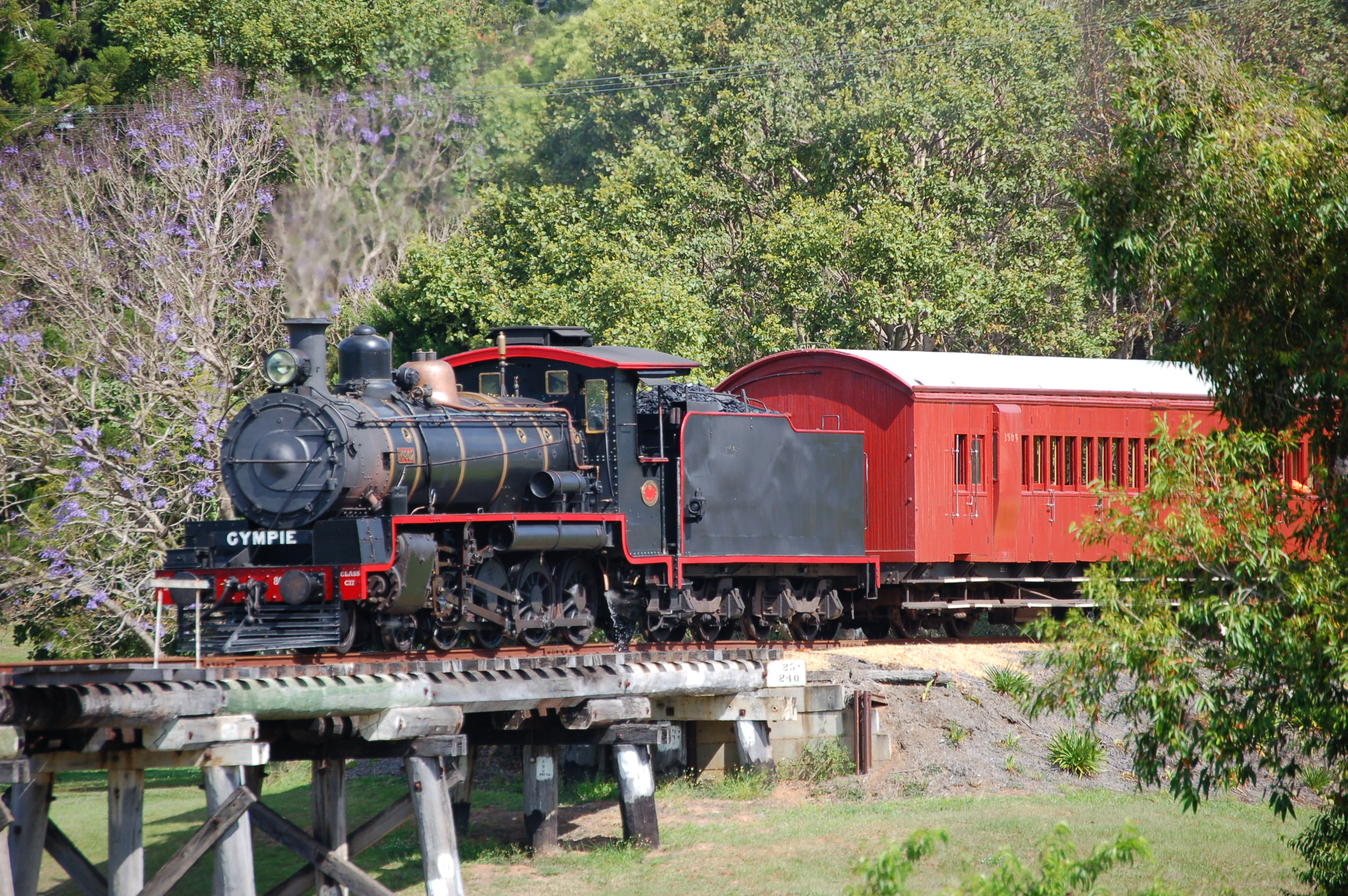 Hero Image